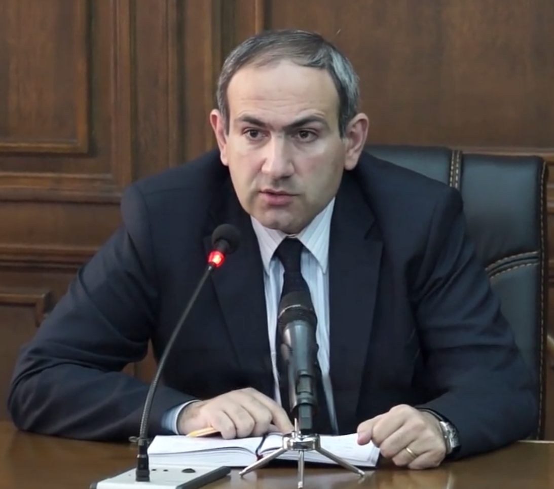 Nikol Pashinyan in April 2014